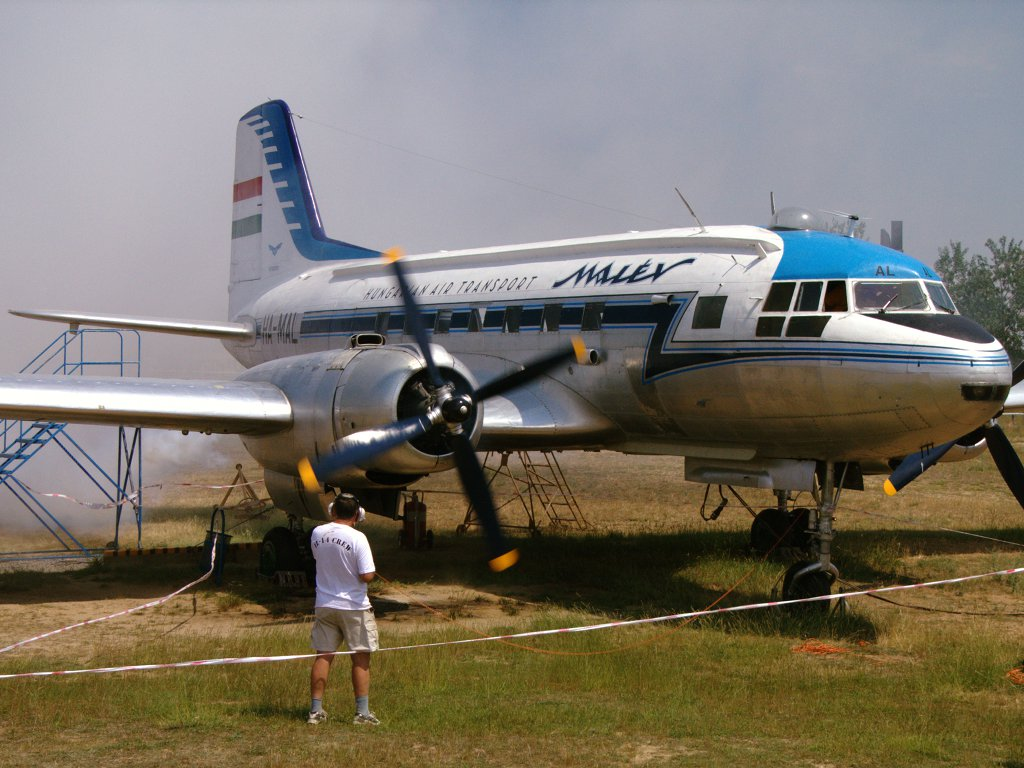 HA-MAL IL-14T Engine start, Ferihegy Aviation Memorial Park, Budapest, Hungary